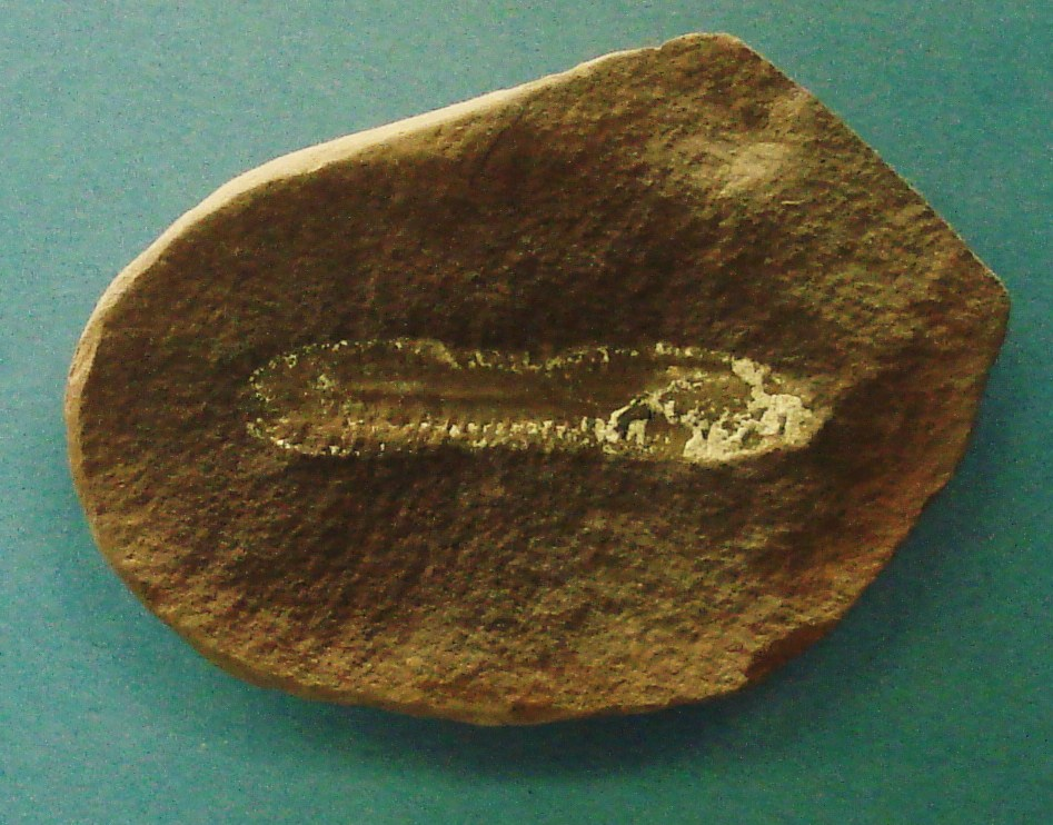 Fossil of Astreptoscolex anasillosus, an extinct worm